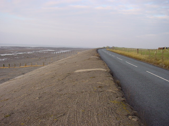 Sea Defence Dubmill. The coast at Dubmill Point is very prone to erosion and restoration works are underway.